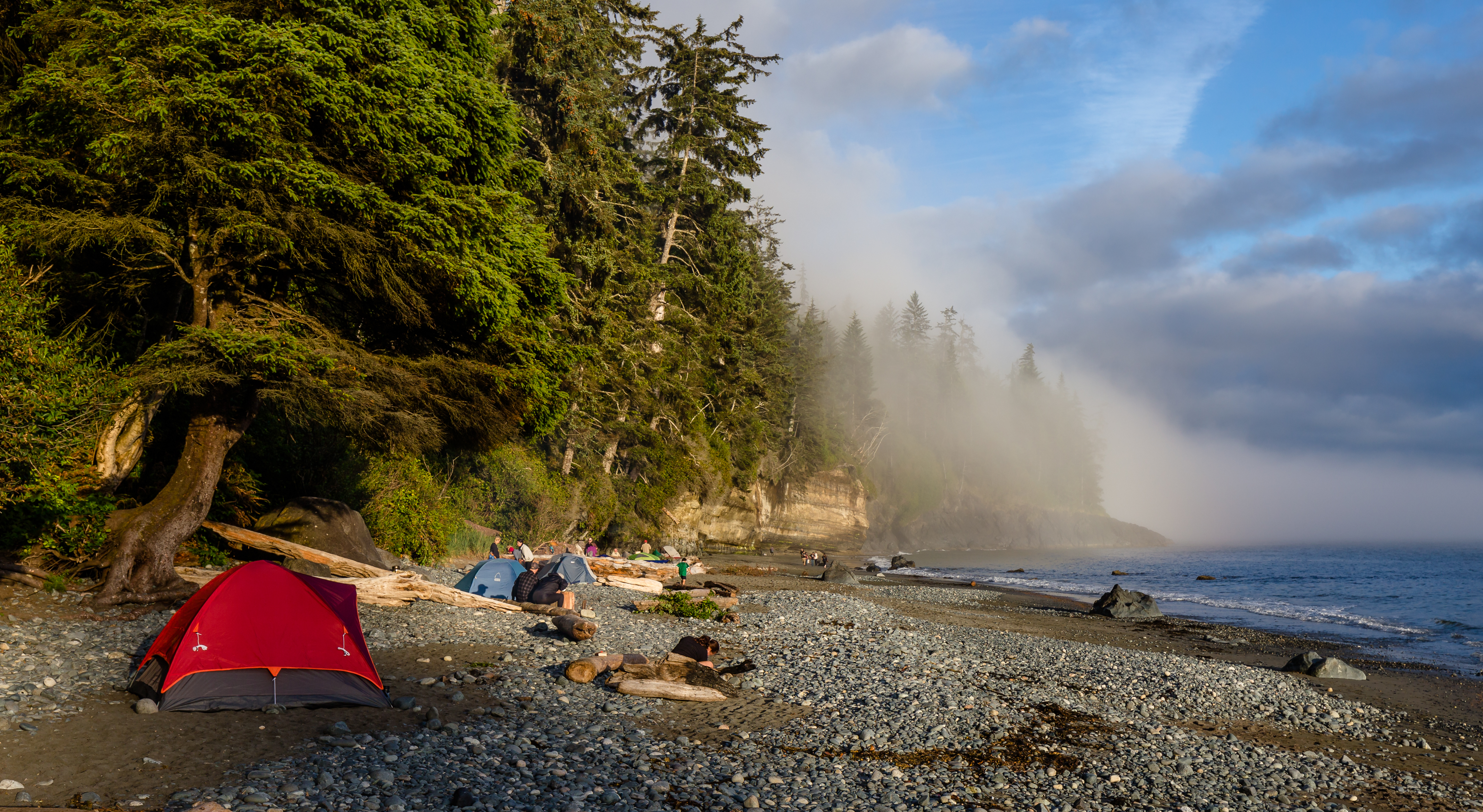 Campsite at Mystic Beach at the beginning of the golden hour, Vancouver Island, Canada. The campsite was quite busy that day due to Canada Day which made the weekend 3 days long and is a popular weekend for camping in Canada